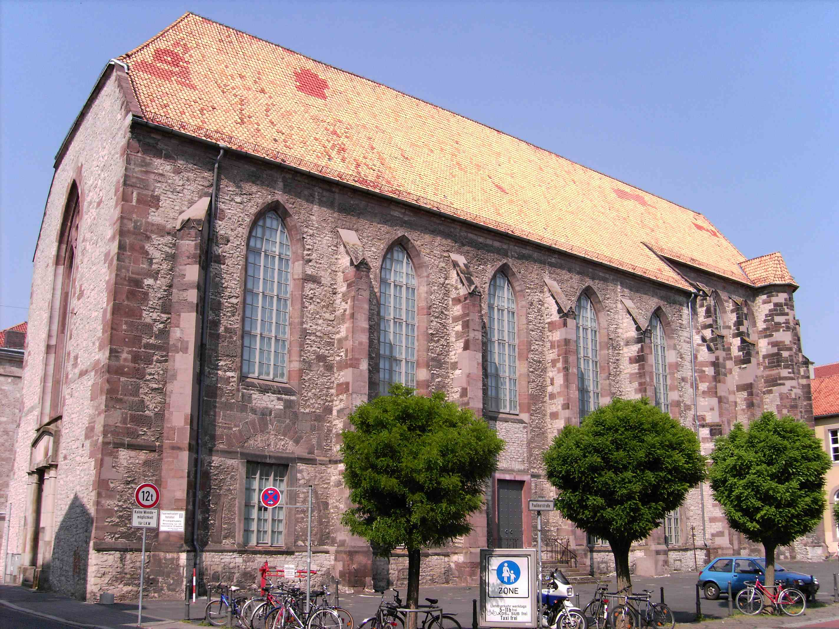 Paulinerkirche, Göttingen, now department of the Göttingen State and University Library.